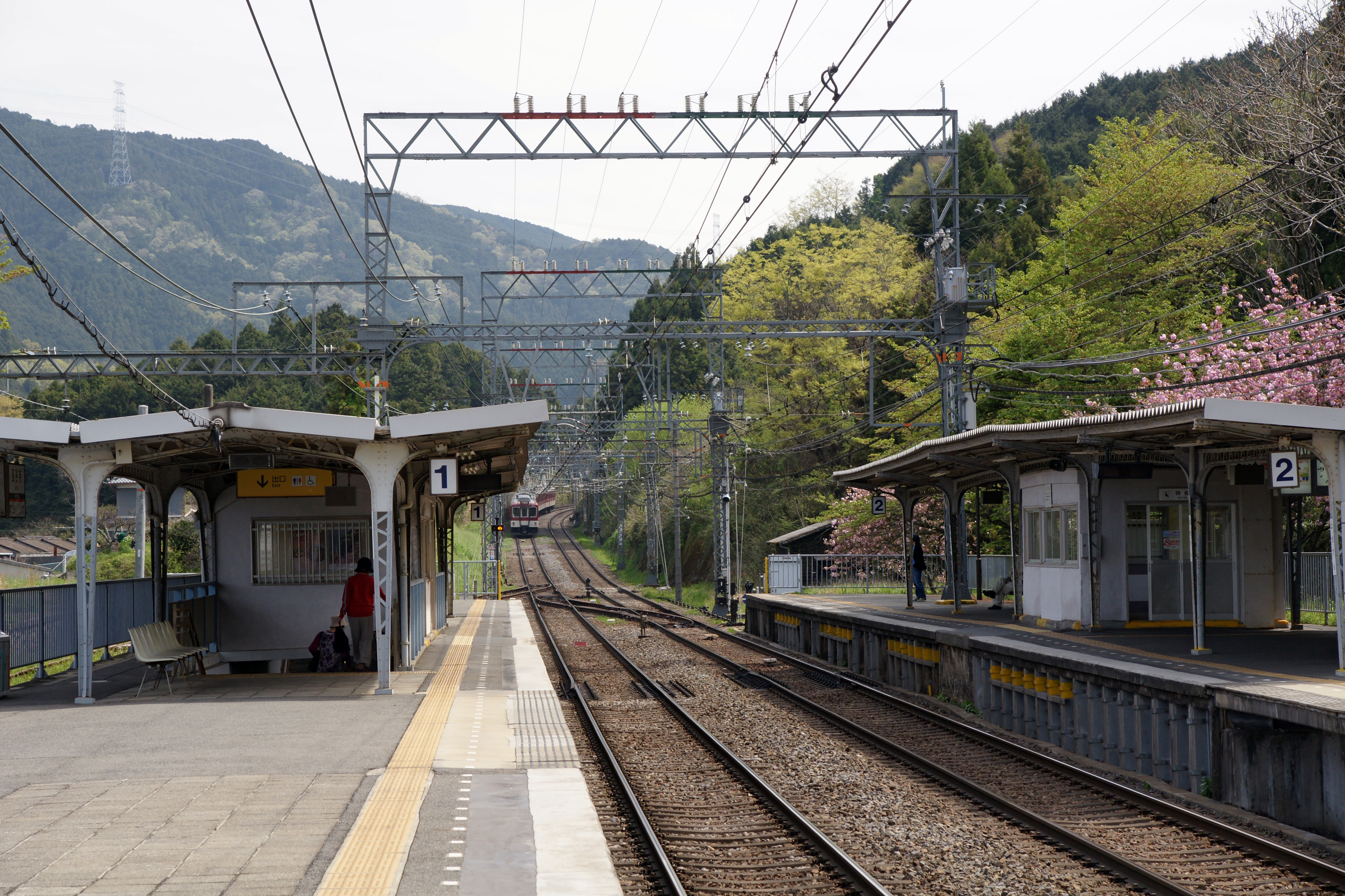 Hasedera Station, Sakurai, Nara prefecture, Japan